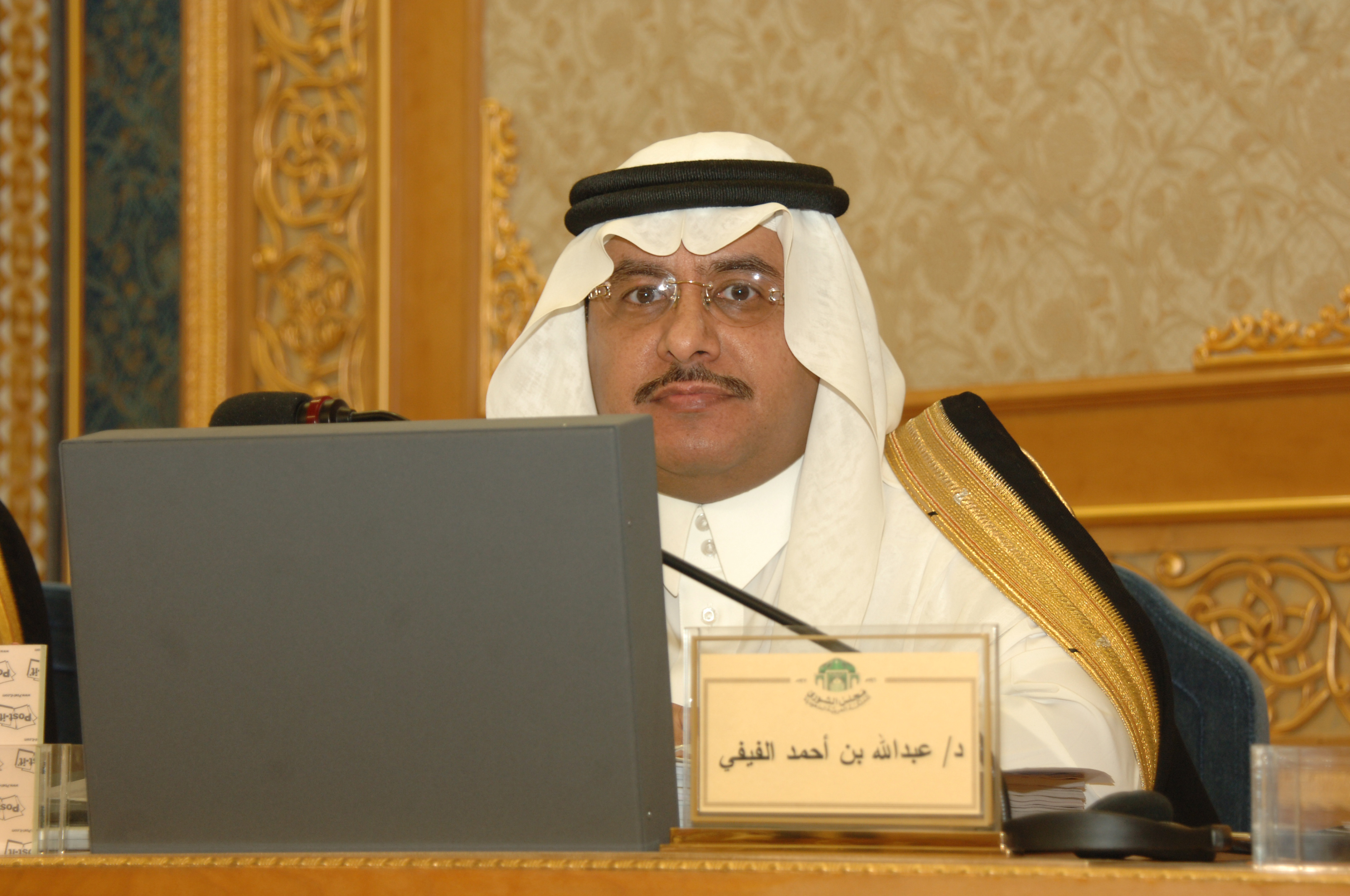 Prof. Dr. Abdullah A. Alfaify